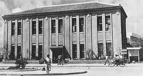 Naha Police Station circa 1955